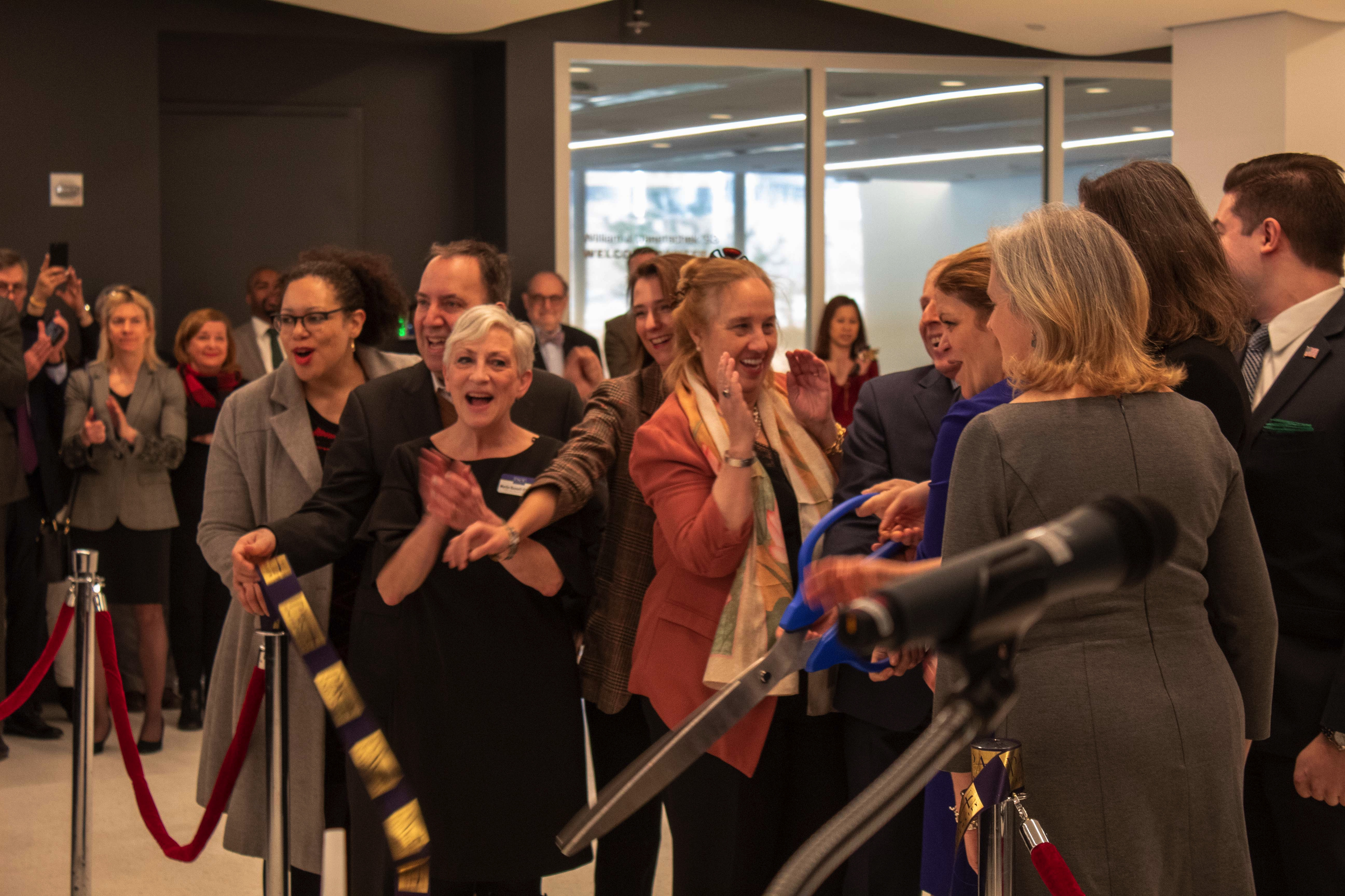 The ribbon-cutting ceremony at One Pace Plaza with several people from the administrative board and city